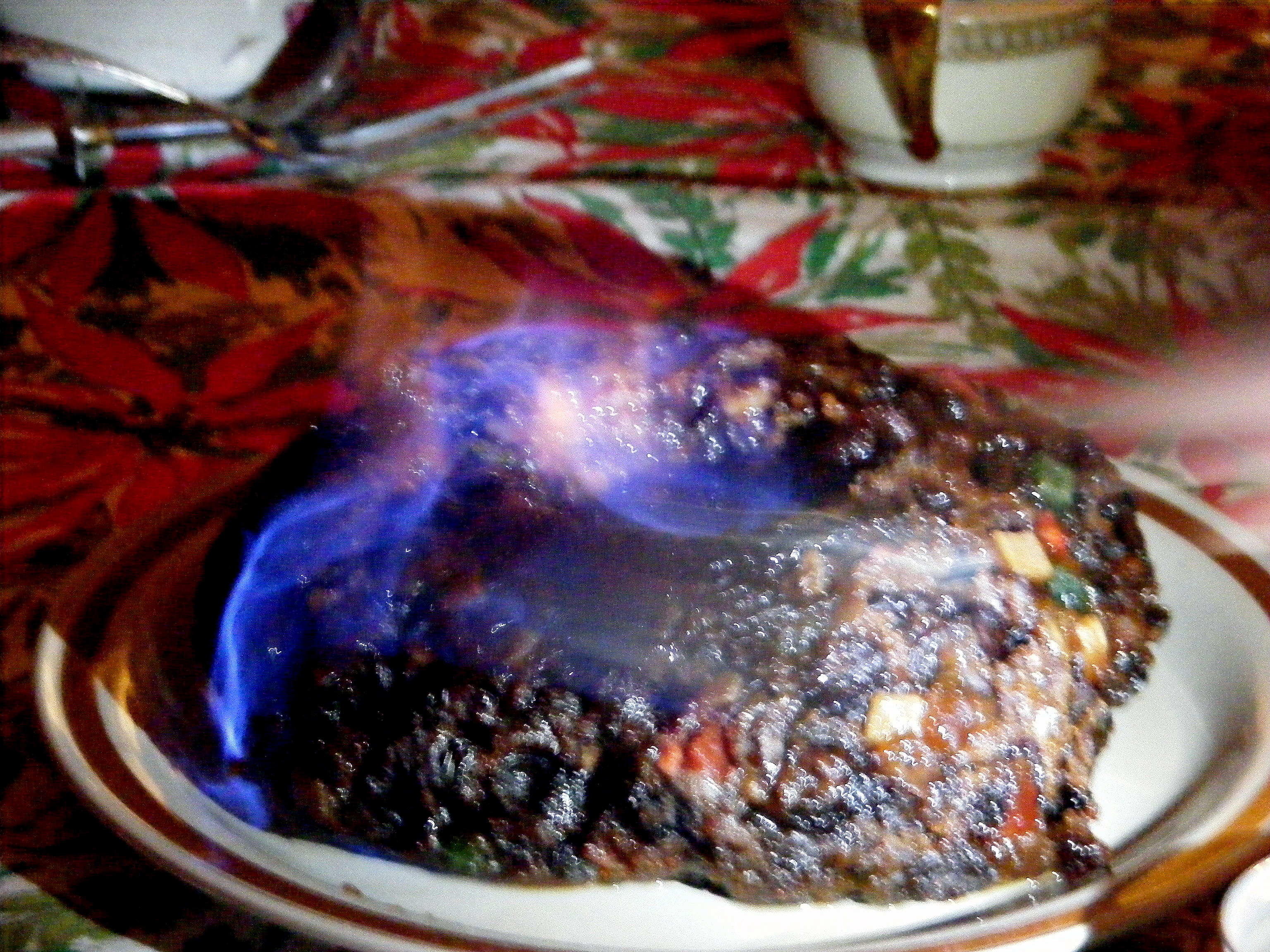 A Christmas pudding made with figs